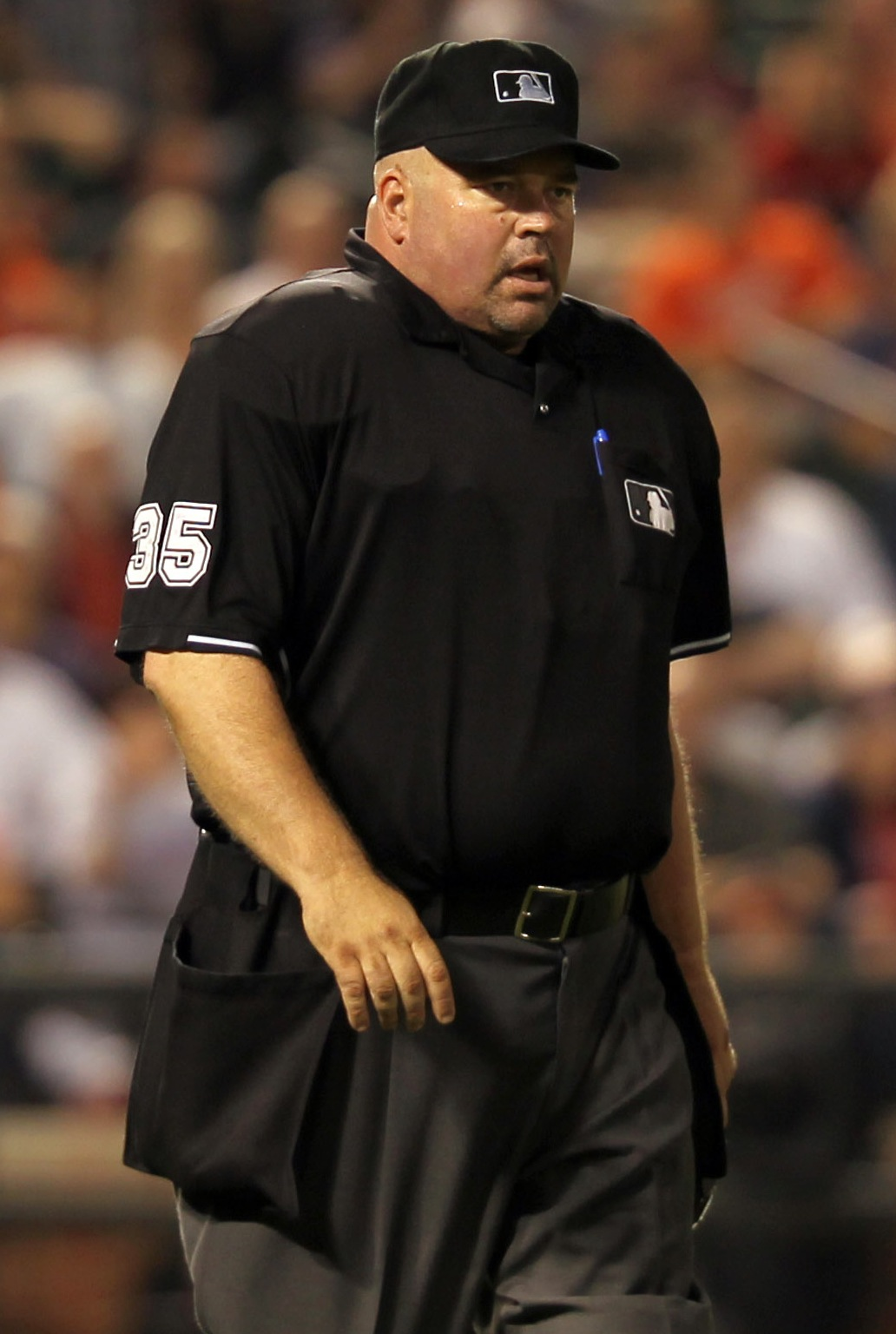 Red Sox at Orioles September 27, 2011